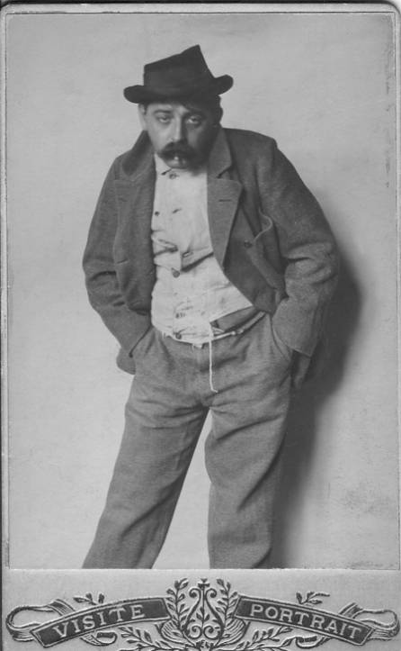 Austrian journalist and later socialist politican Max Winter (1870-1937) dressed as "down-and-out" for his reportage about so-called "Strotter" (people who looked, in those years, for things like bones, fat and money to just survive) which he did in 1902 for the socialist newspaper "Wiener Arbeiterzeitung"